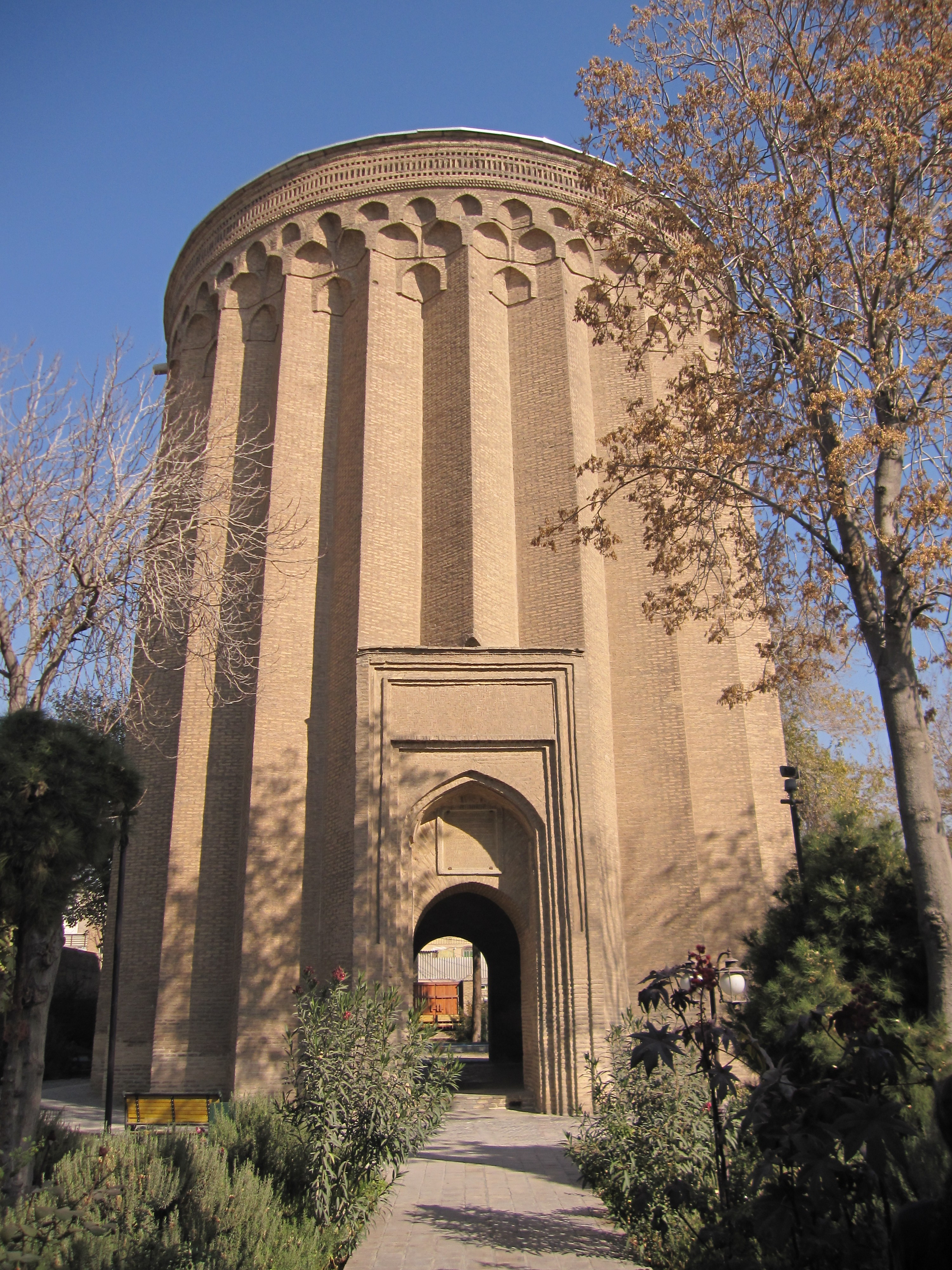 Toghrol Tower in Rey, Iran, is a 12th century monument.